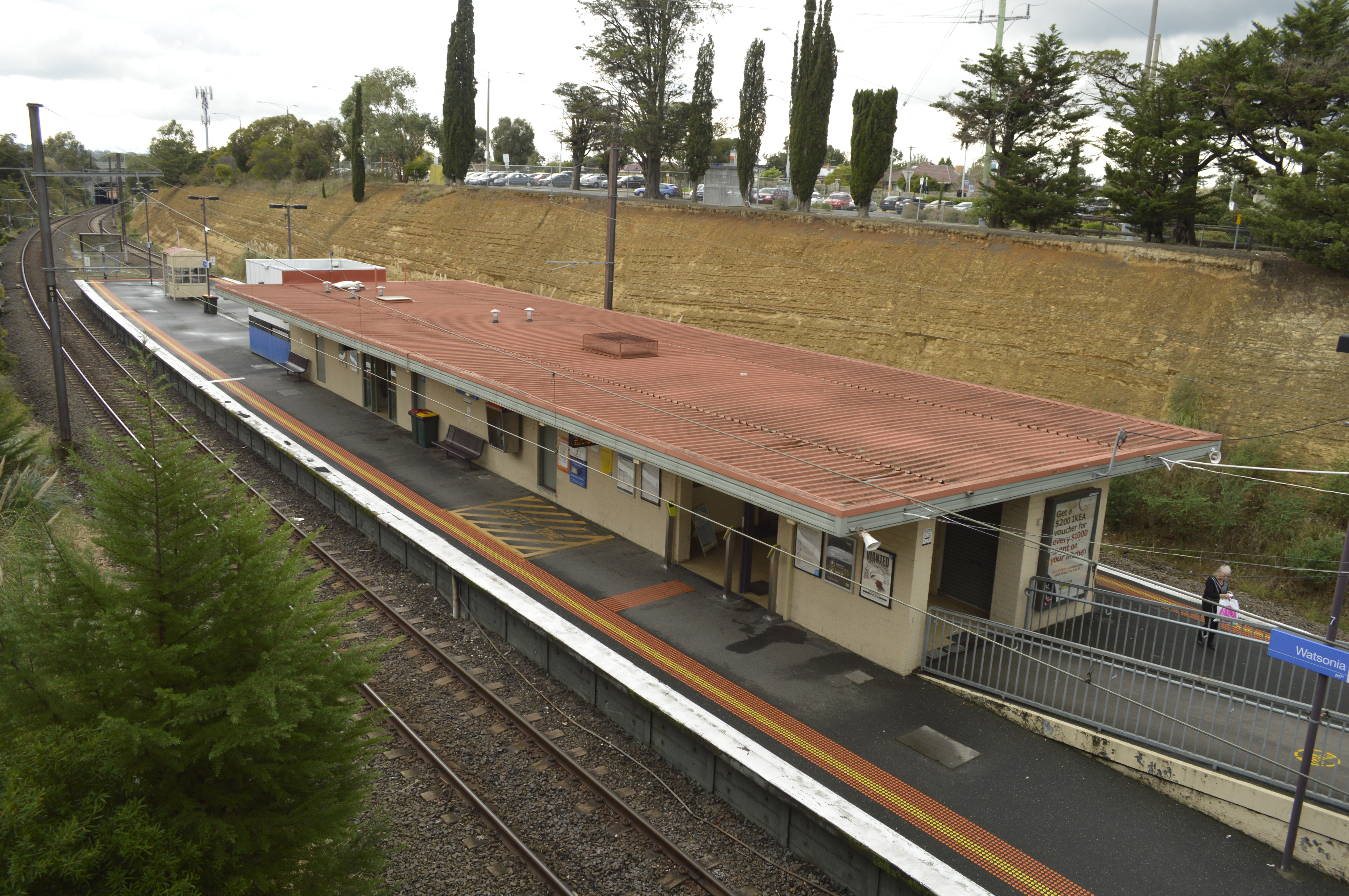 Overview of the station